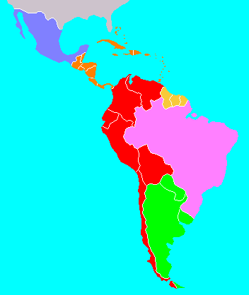 Map of Latin America divided in regions.